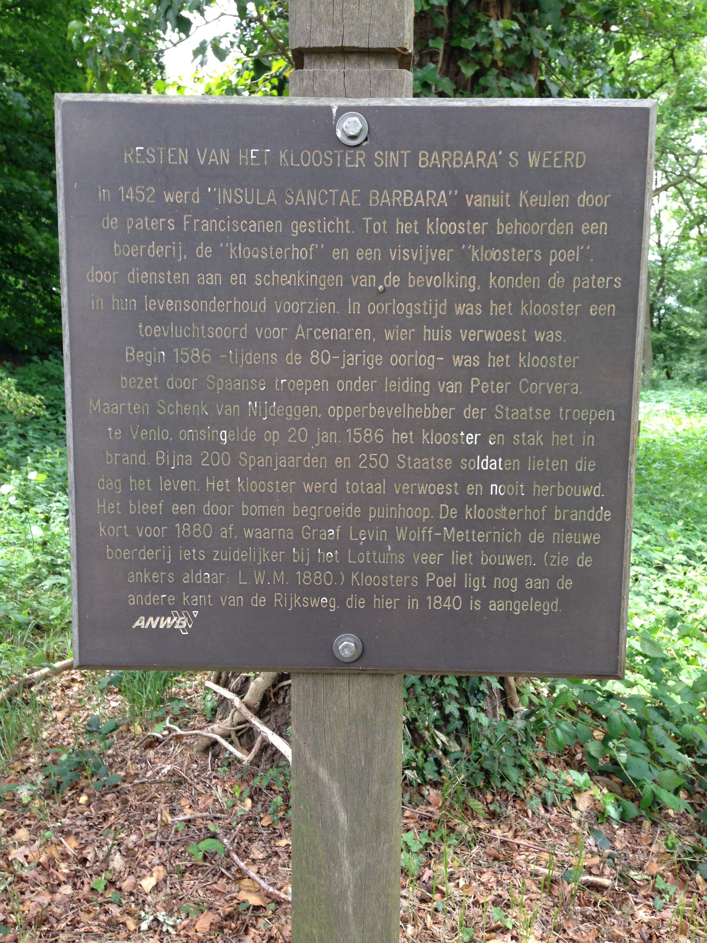 Description of the former ruined cloister near Arcen en Velden.